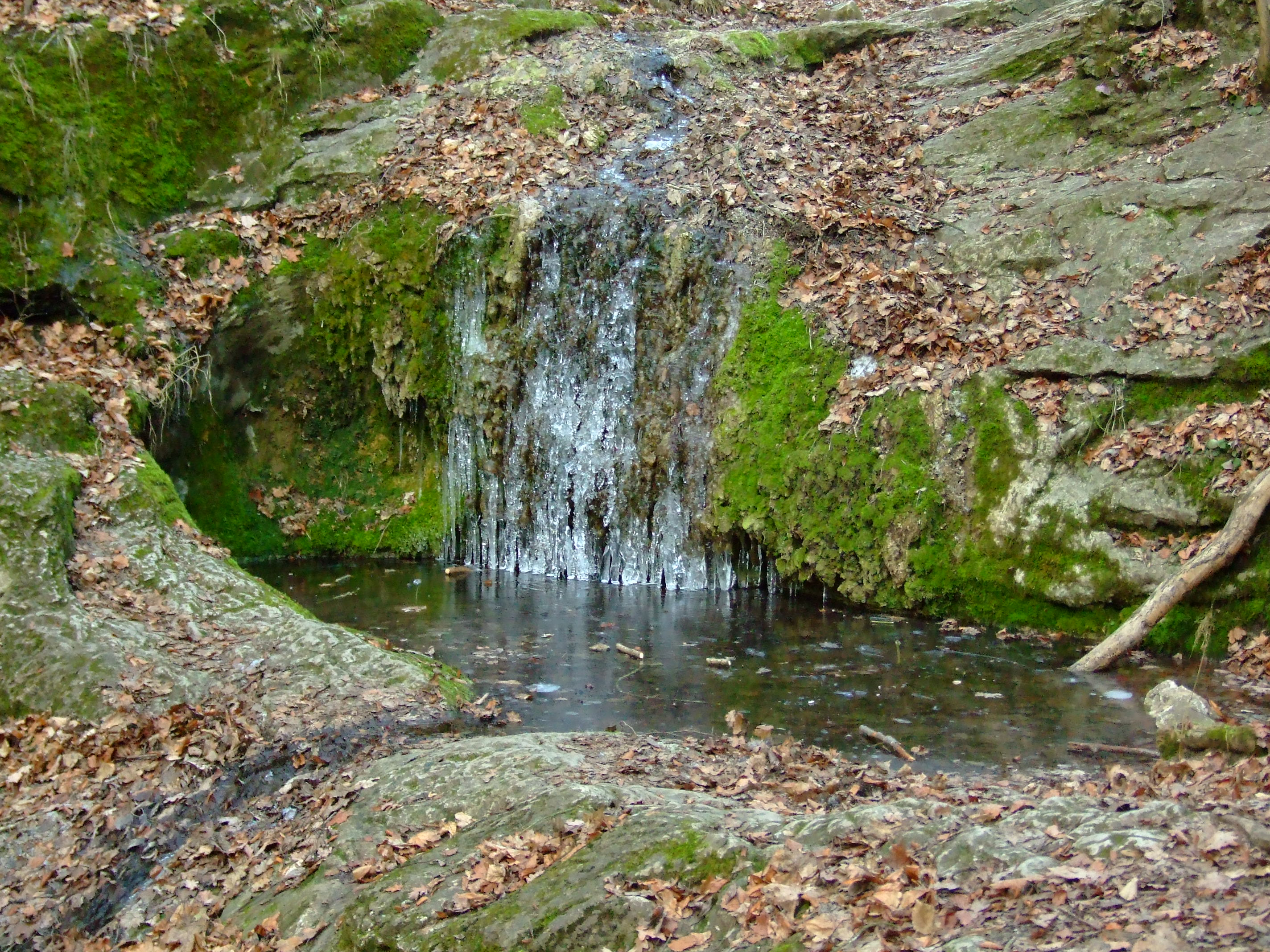 Frozen Bubovice waterfall/system of small waterfalls near Srbsko village in Central Bohemian Region, CZhelp